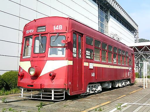 Company:Nishi Nippon Railroad Type:Tram Type100 Car number:148 Location:The ruin of Kitakyushu Municipal Transportation and Science Museum, Kokuraminami-ku, Kitakyushu, Fukuoka, Japan.